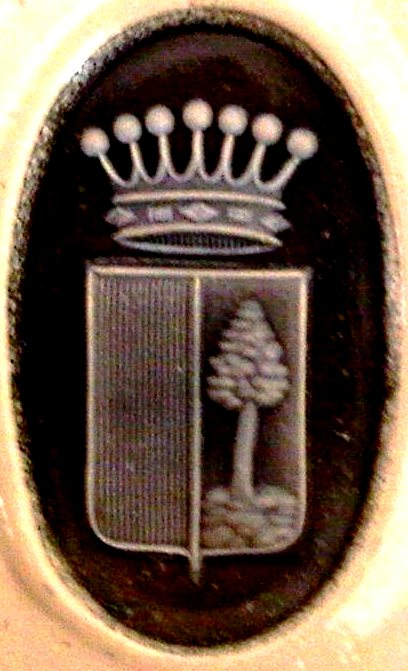 Wappen derer v. Hassell